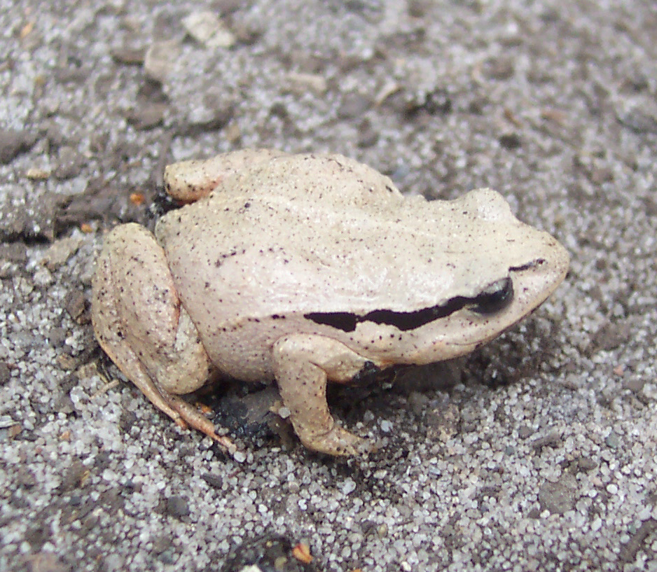 A pale coloured Haswell's Froglet (Paracrinia haswelli or Georcinia haswelli)